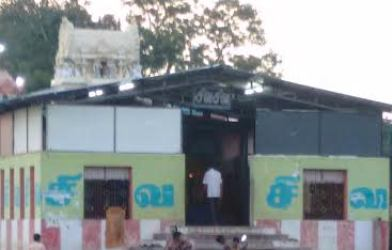 Thanjavursitthanandisvartemple தஞ்சாவூர் சித்தாநந்தீசுவரர் கோயில்